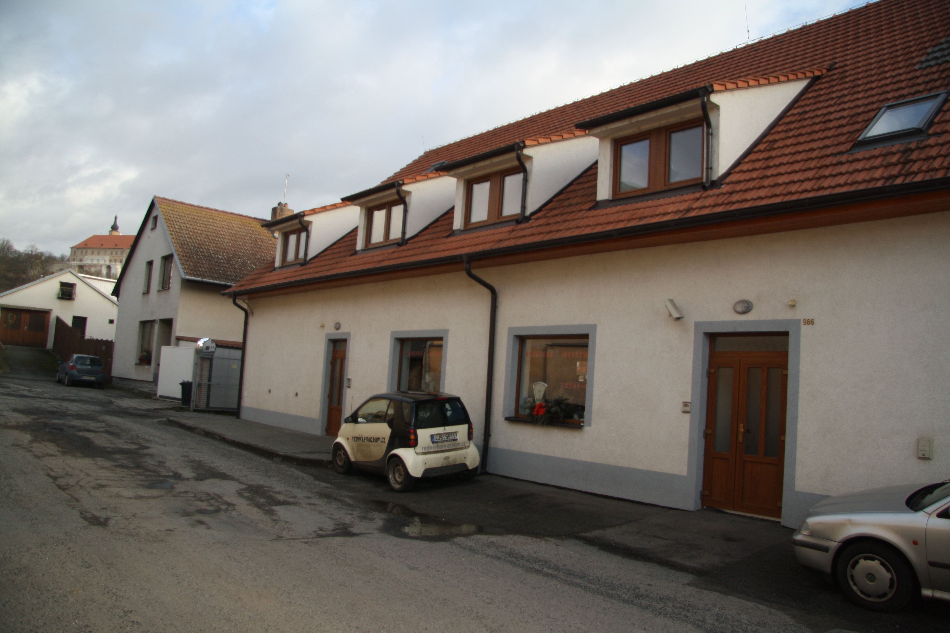 Overview of Řeznické muzeum Jana Pavlíčka in Náměšť nad Oslavou, Třebíč District.